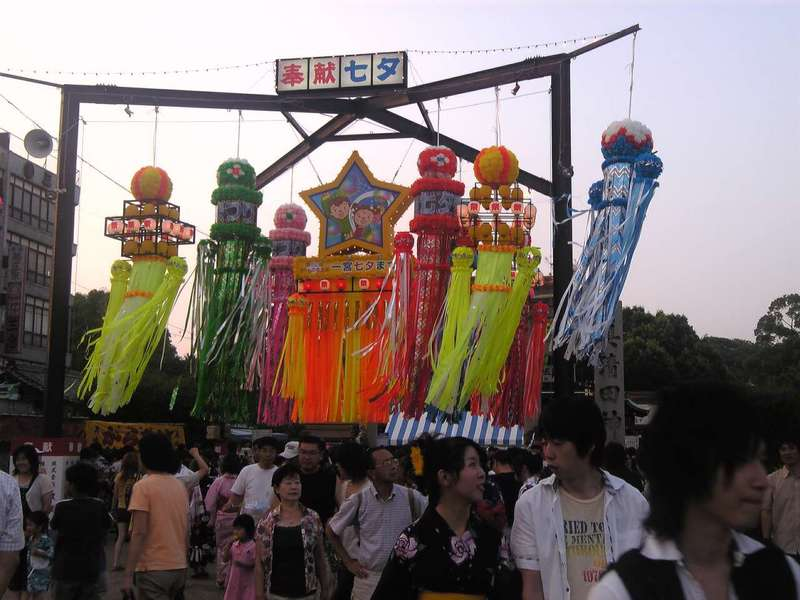 Ichinomiya-shi bustles during the annual Tanabata Matsuri. Taken by Stephanie Bailey, July 2007, Ichinomiya, Aichi, Japan.